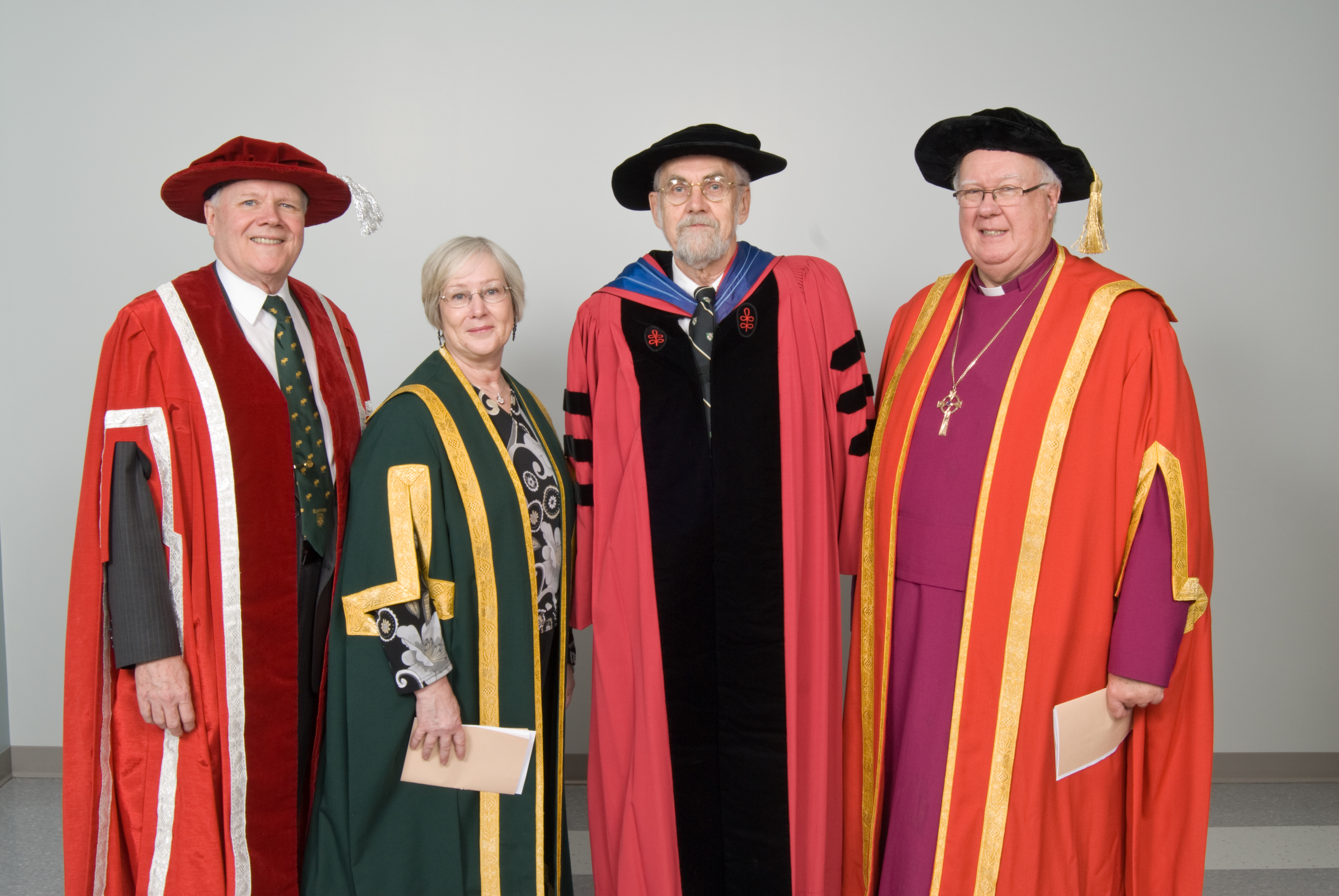 Officials of Renison University College in convocation robes